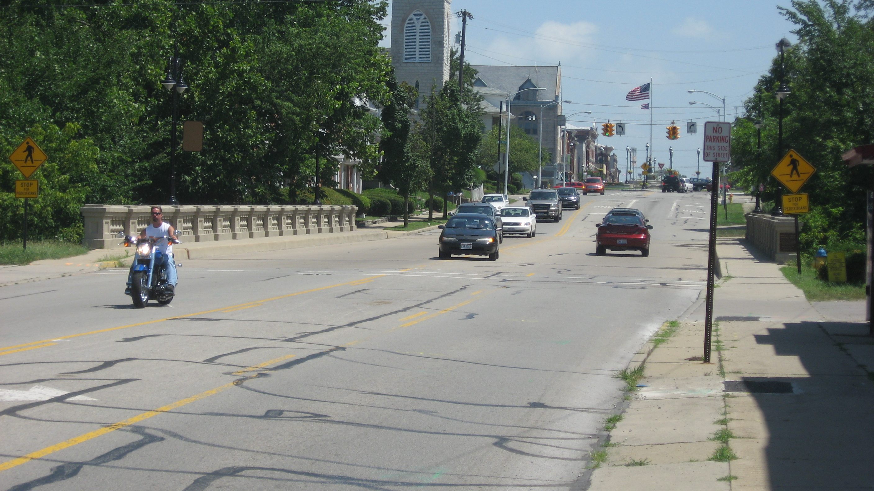 Looking southeastward over the Broadway Bridge, which carries Broadway (State Routes 49 and 571) over Greenville Creek in Greenville, Ohio, United States. Built in 1909, it is listed on the National Register of Historic Places.